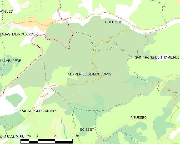 Map commune FR insee code 34331.png - Verreries-de-Moussans